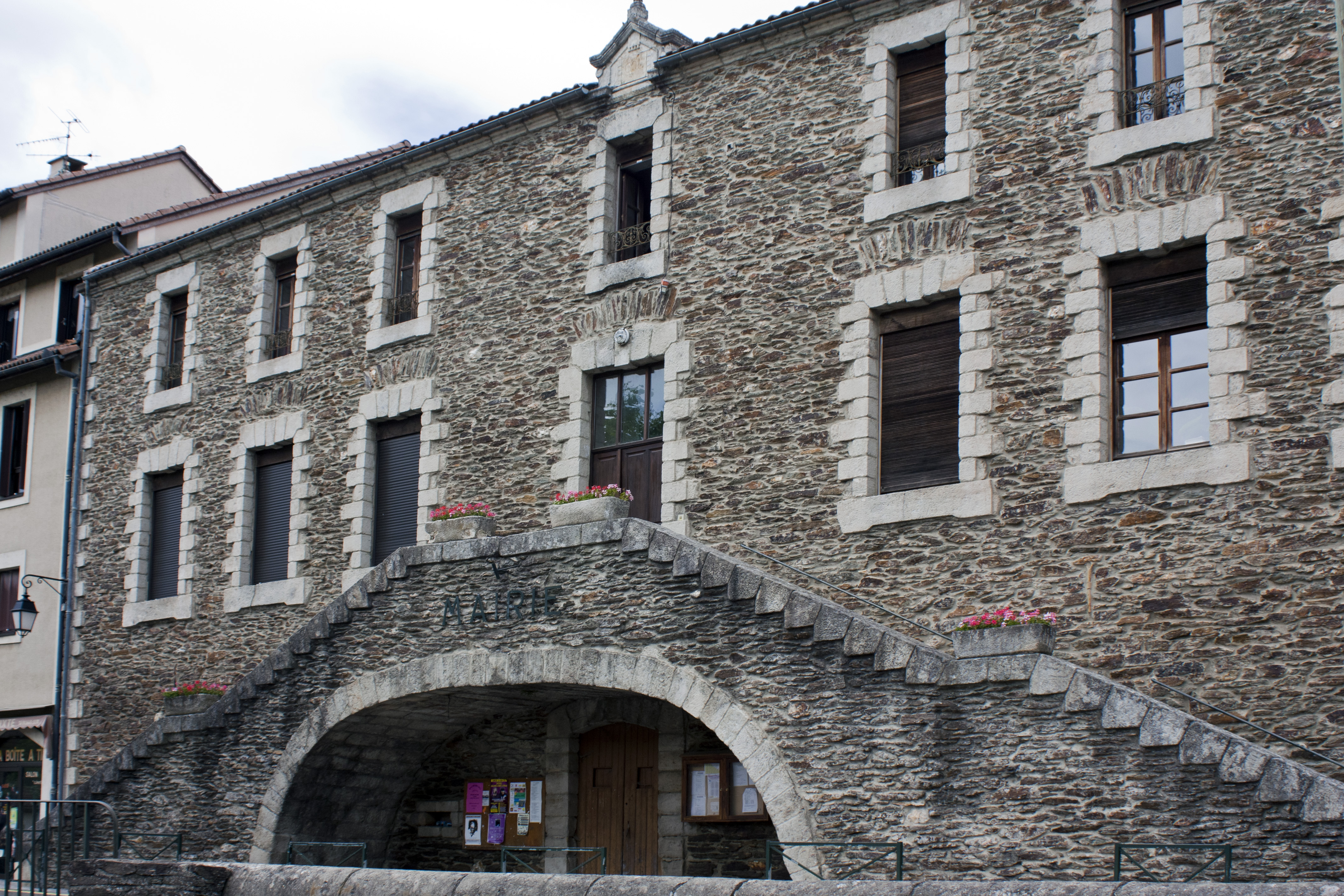 Town hall of the Collet-de-Dèze.